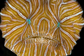 Psychedelic frogfish (Histiophryne psychedelica). For a higher resolution, contact David Hall [1].